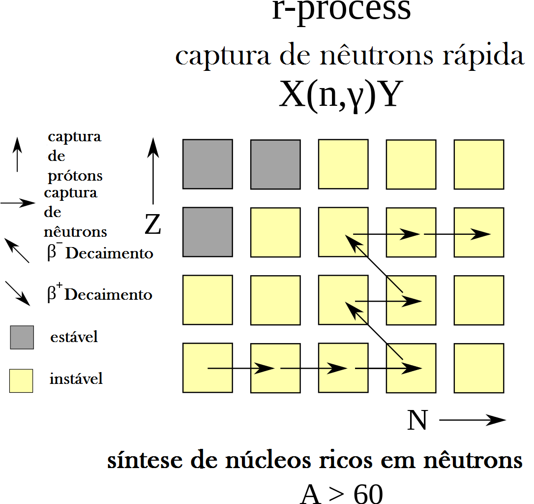 R-process in Portuguese